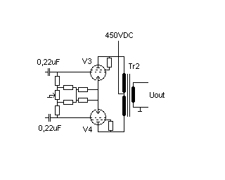 Tube power amp